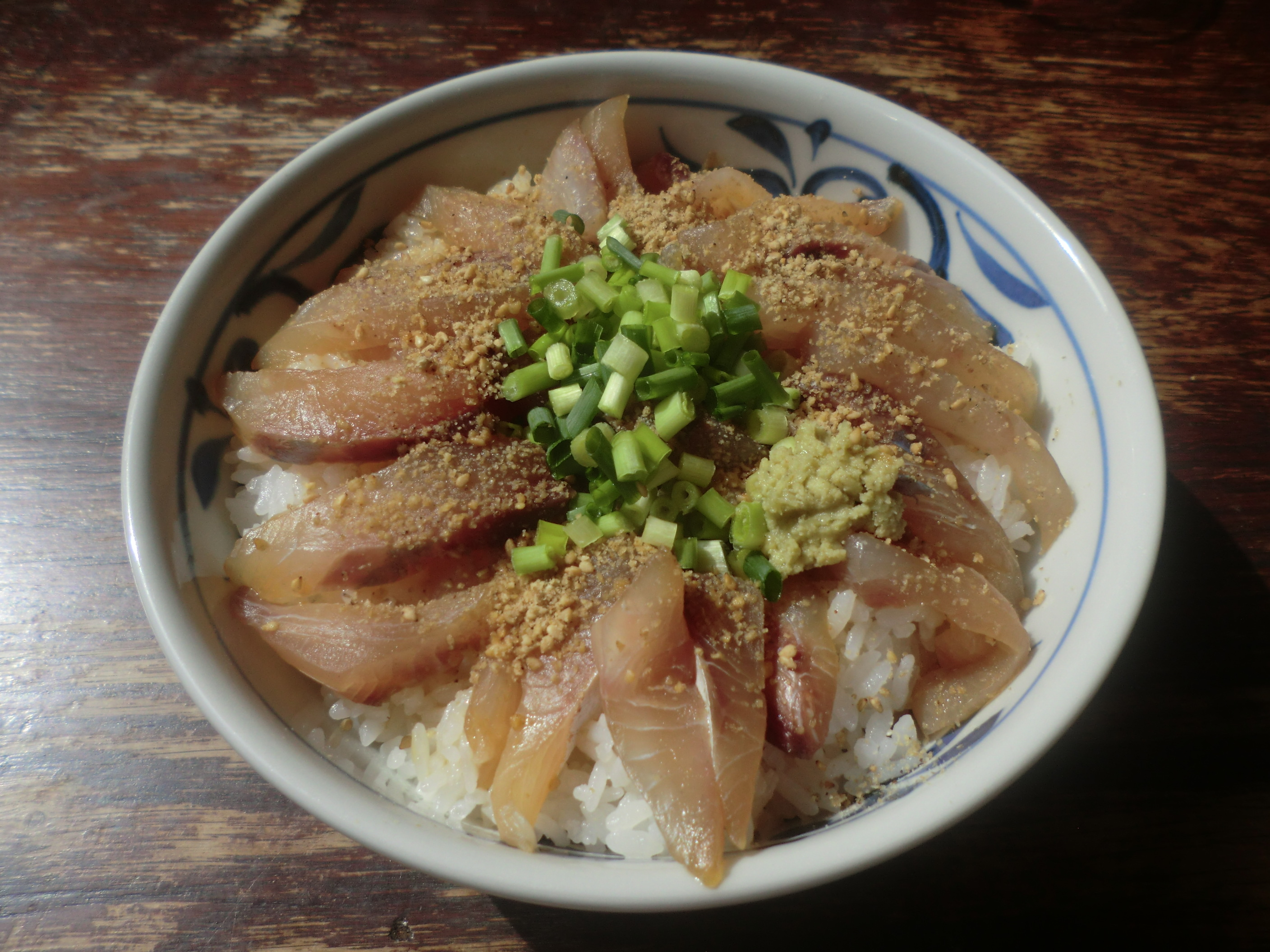 Ryukyu don(a kind of donburi), famous local cuisine of Oita prefecture.